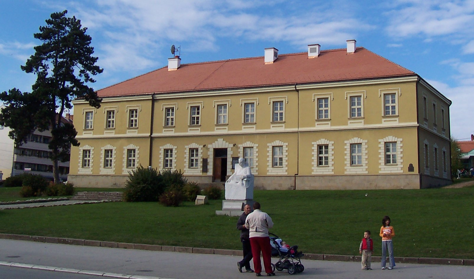 Old court in Gornji Milanovac. Copyright 2006 by Nikola Smolenski.